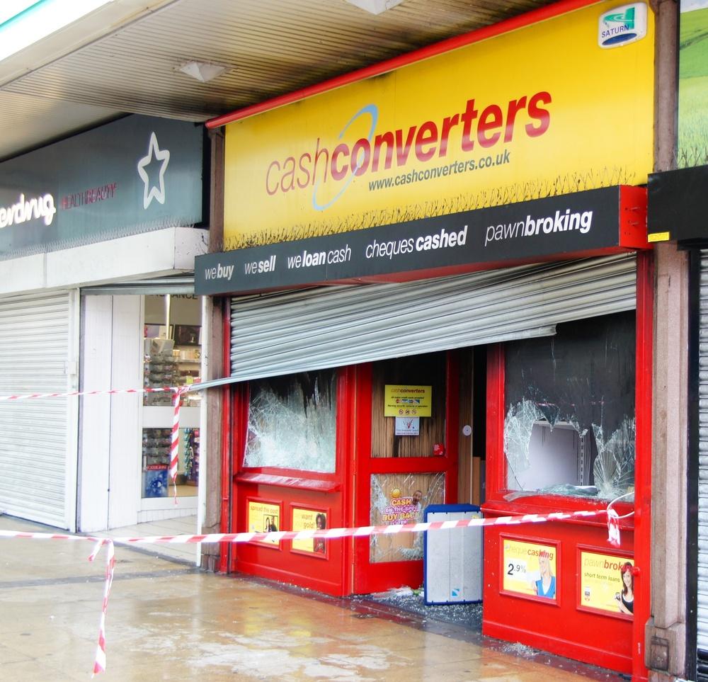 Cash Converters on Salford Precinct riot damage